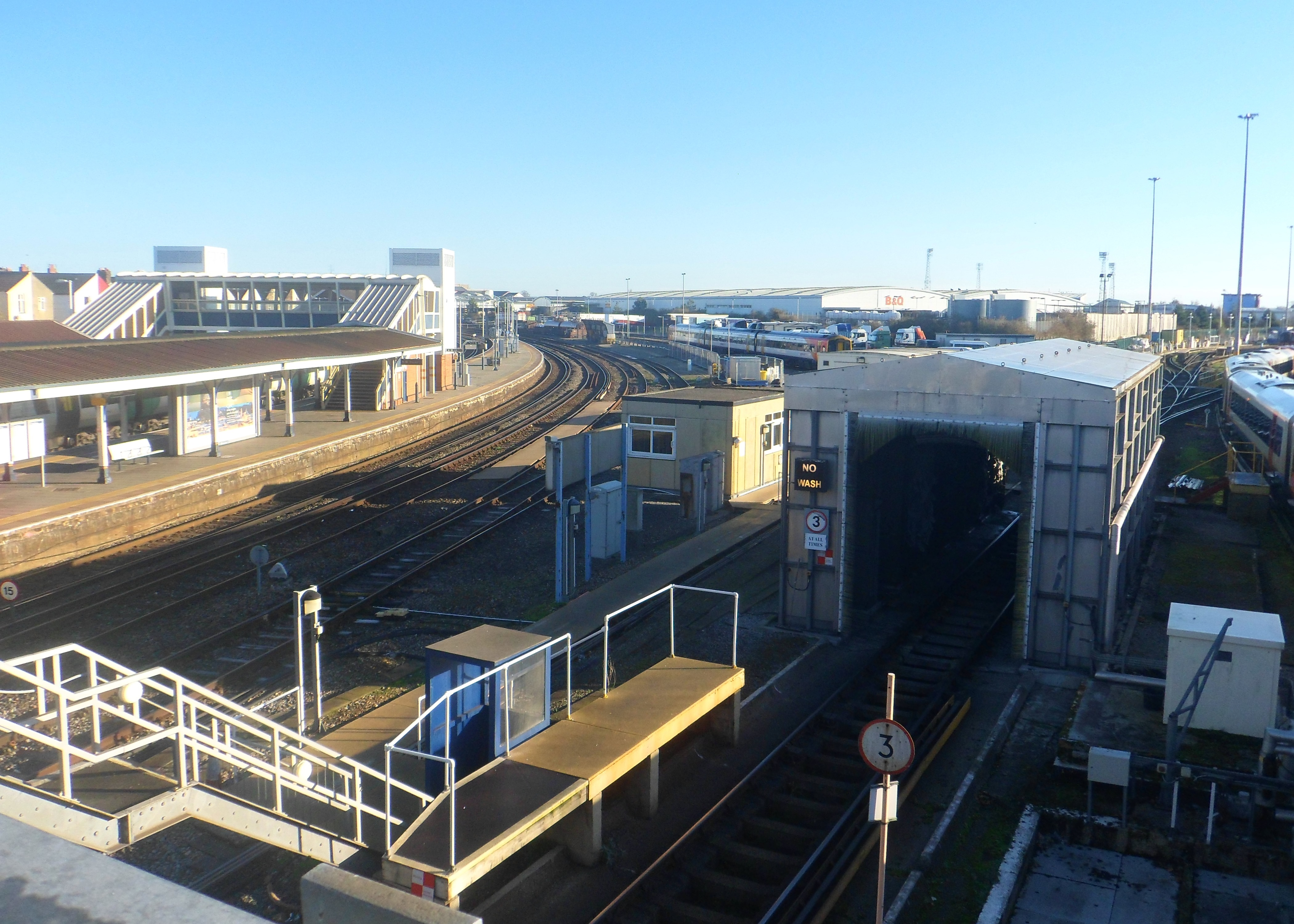 An eastward view across Fratton station and Traincare Depot from the footbridge. The station is in the Fratton area of the City of Portsmouth, England.